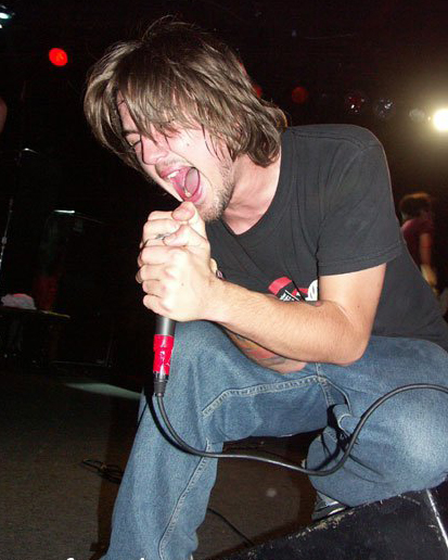 Nate Barcalow of Finch @ The Glass House